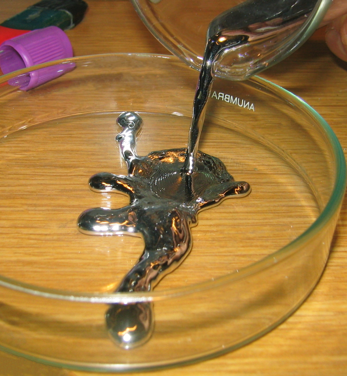 Element mercury (Hg), liquid form.